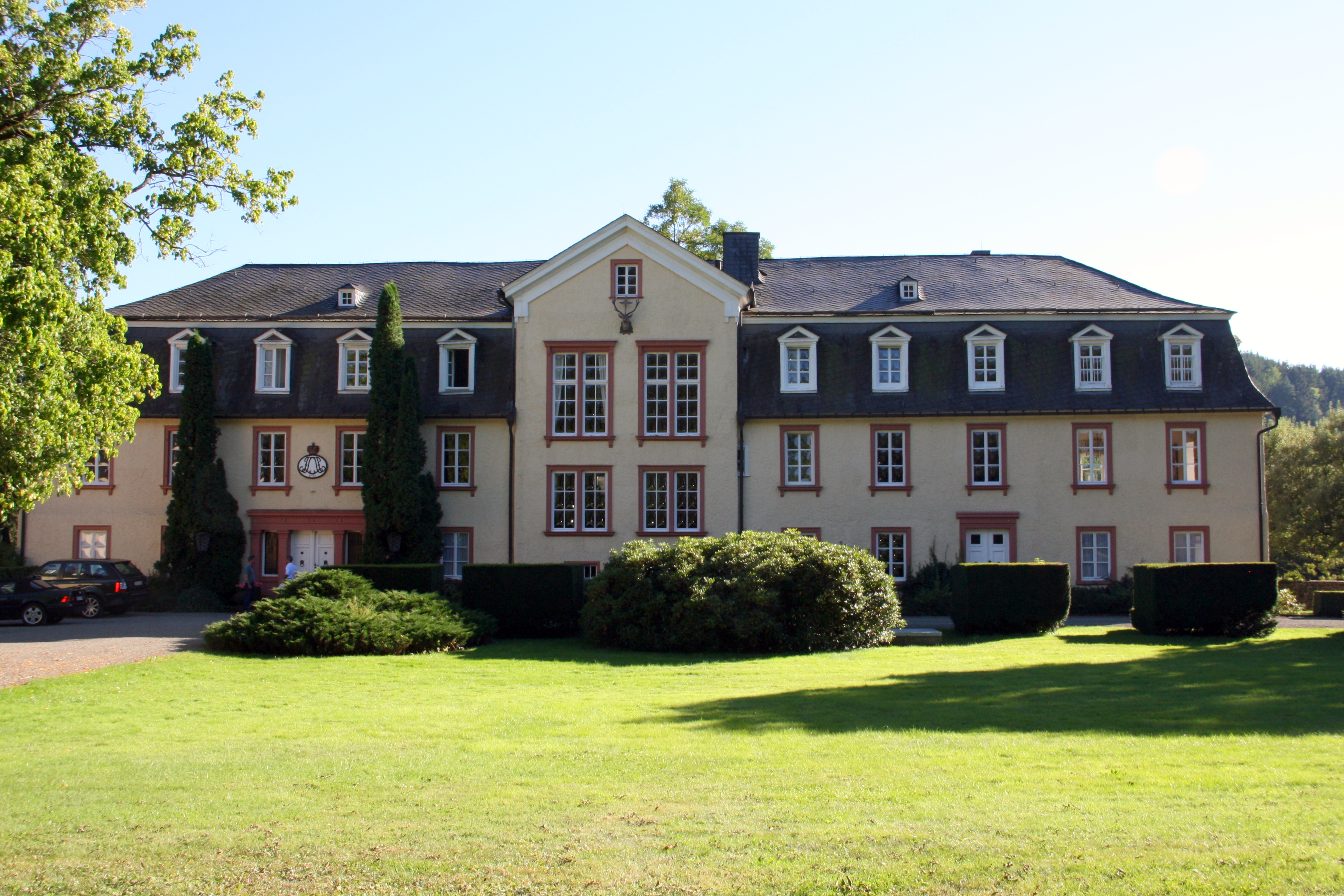 Cultural heritage monument in Bad Berleburg